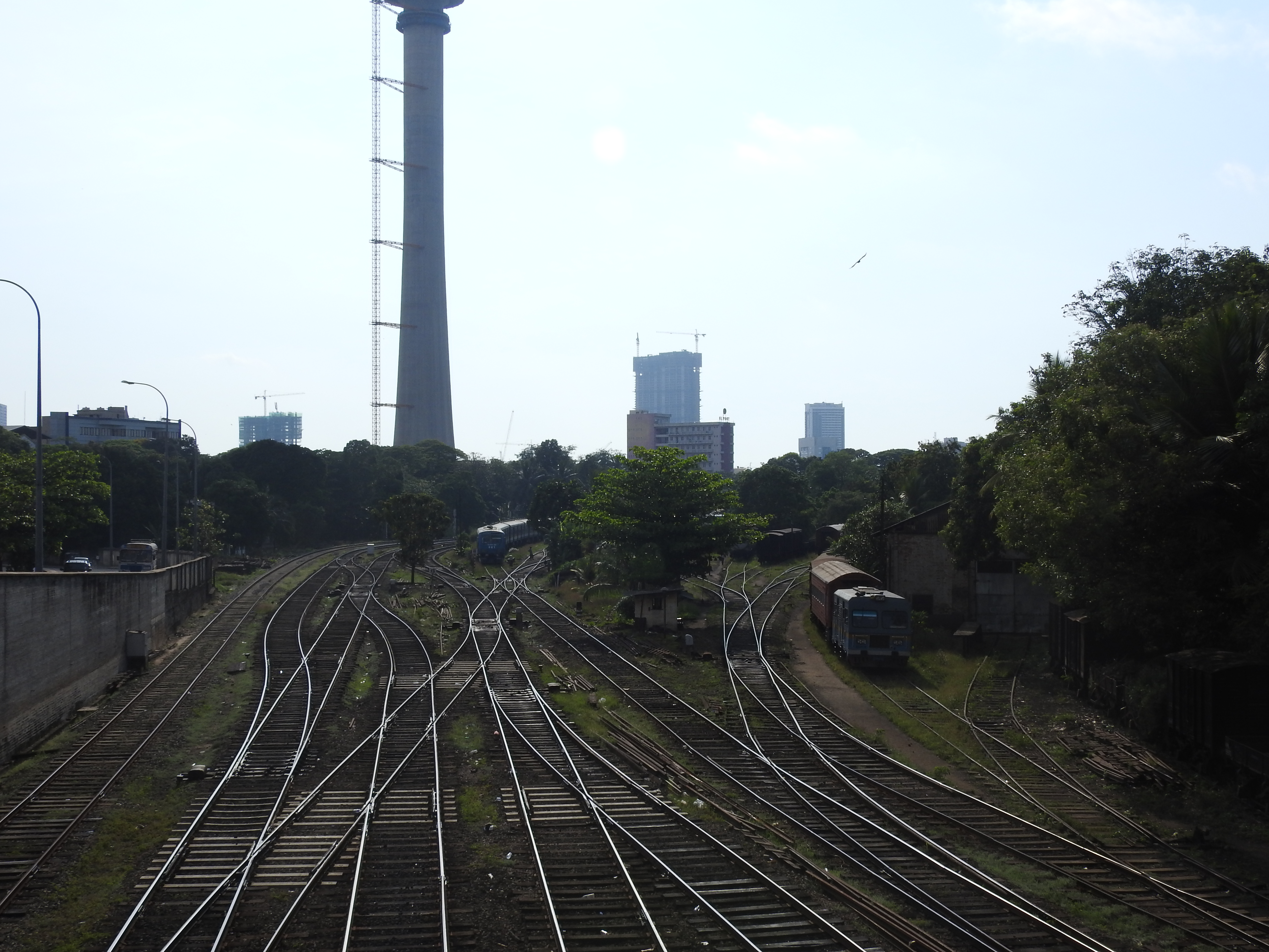 Photo of the Lotus Tower taken during a photowalk by User:Rehman and User:Azeez as part of the Wikimedia Community User Group Sri Lanka. The photowalk covered the tallest structures in Colombo that are either completed or under construction.